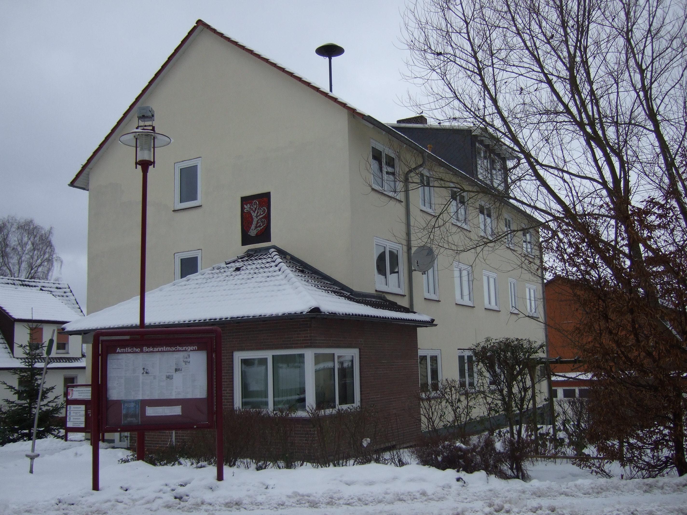 city hall of Söhrewald